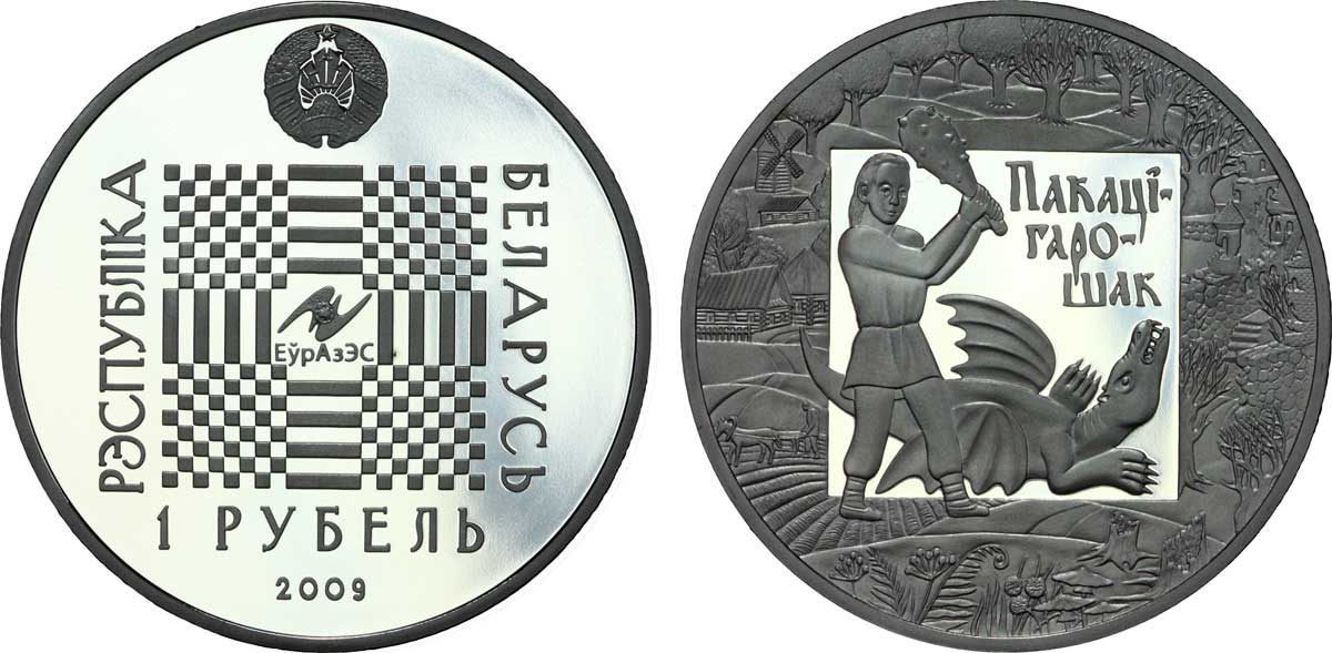 BIÉLORUSSIE, 1 Rouble représentant l'emblème de Communauté économique eurasiatique (CEEA)